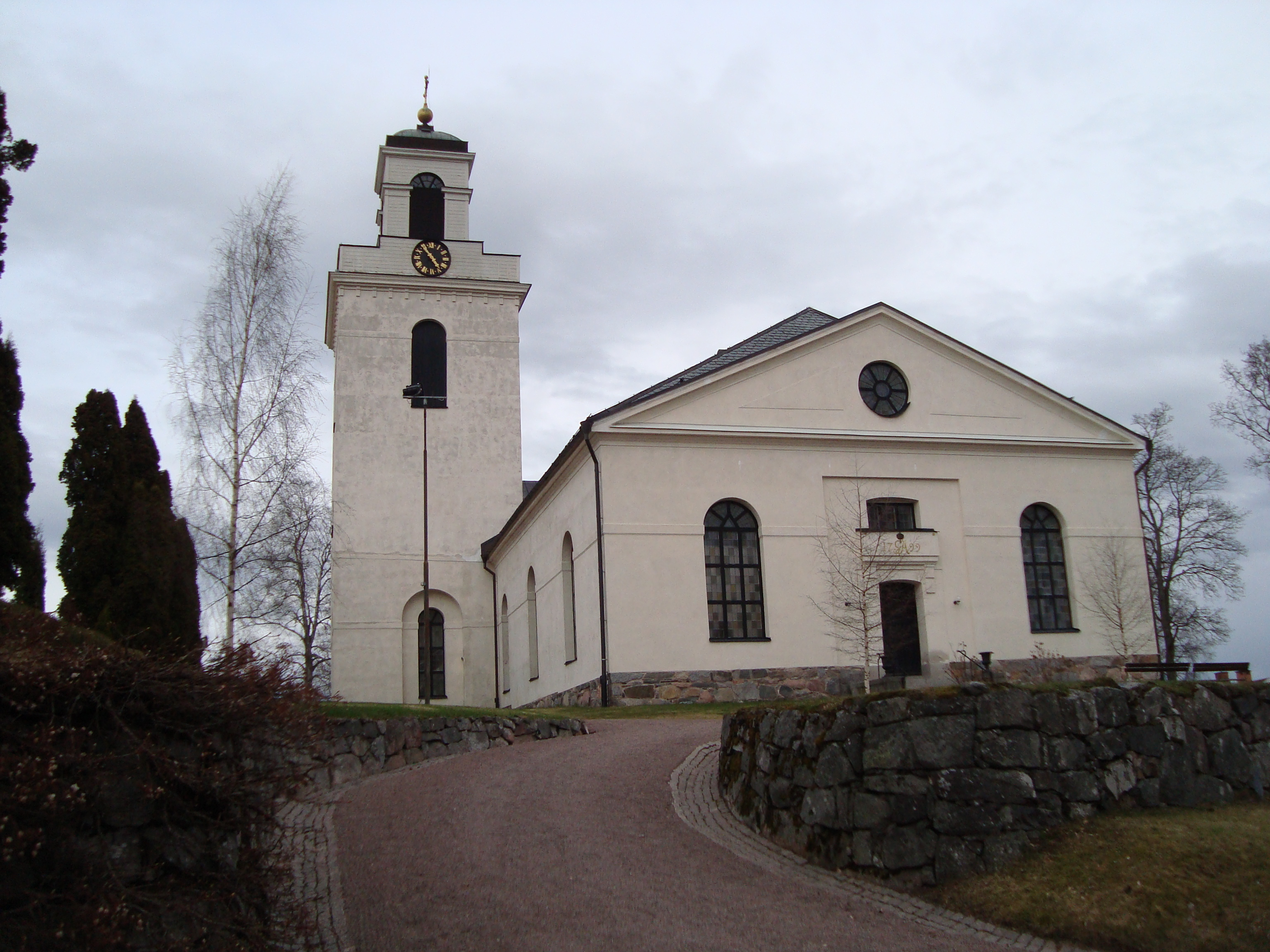 Church of Bjursås, Bjursås, Falun Municipality, Sweden